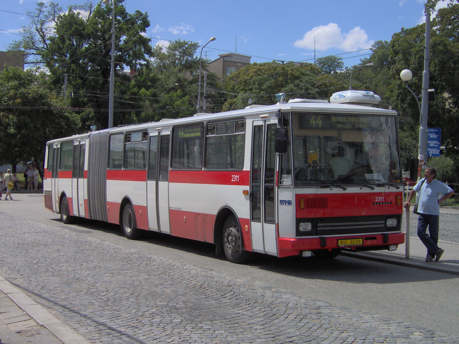 Karosa B 741 bus in Brno